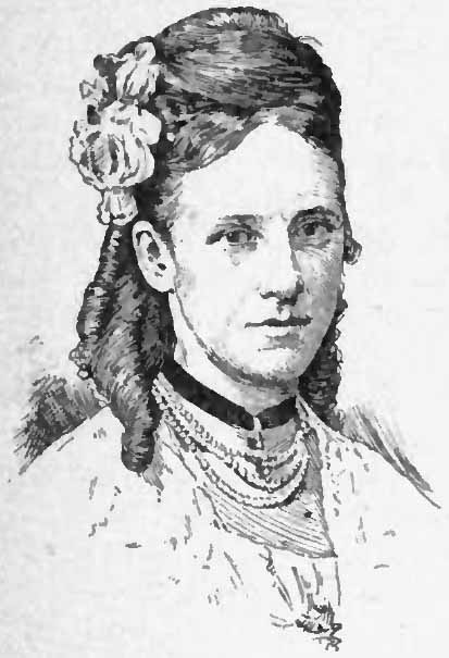 Portrait drawing of Mary Waldersee, philanthropist